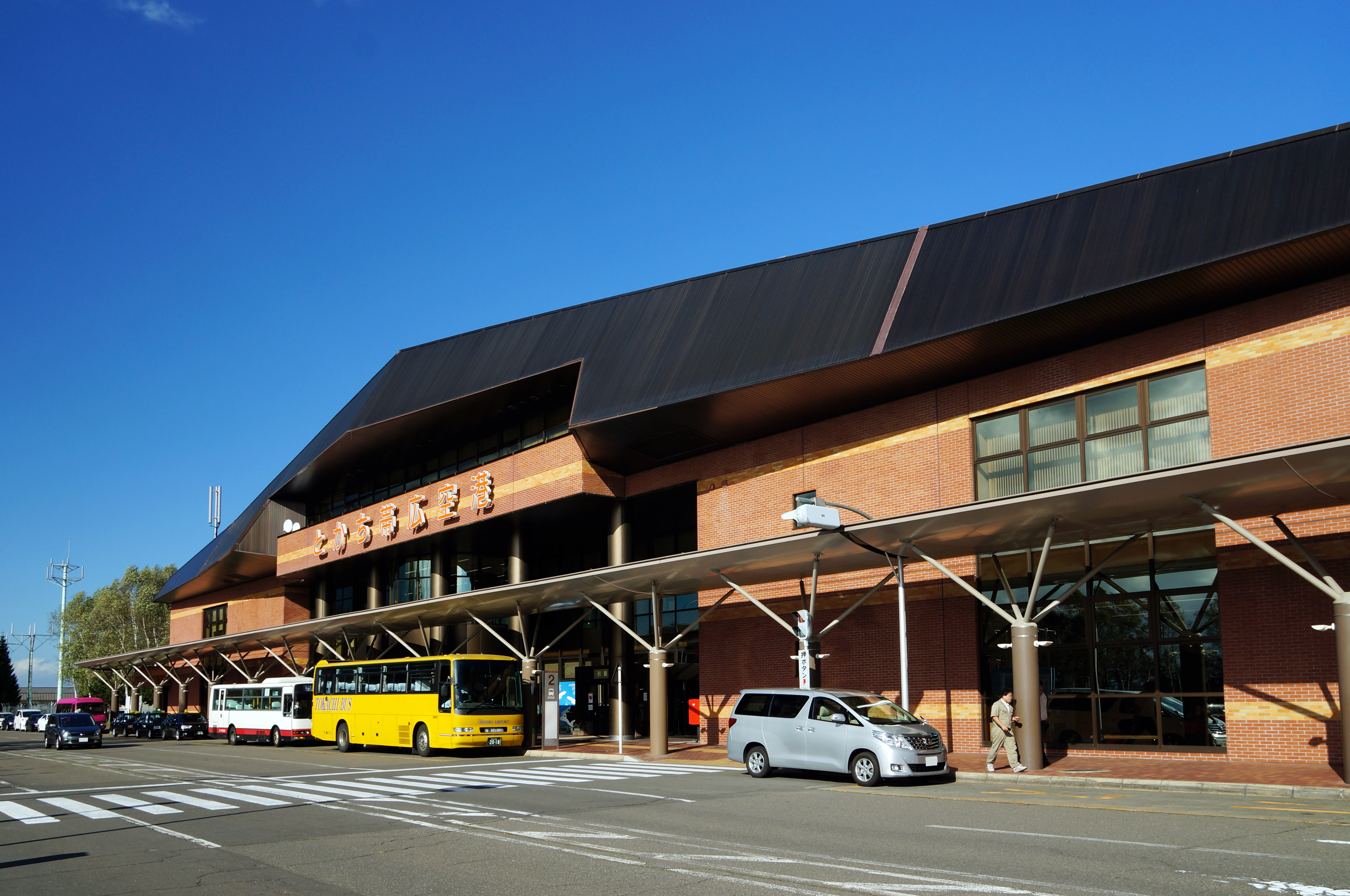 Tokachi-Obihiro Airport in Obihiro, Hokkaido prefecture, Japan.